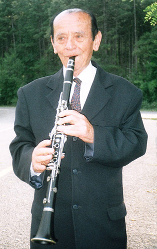 Tale Ognenovski with his Buffet Crampon clarinet, Vodno Mountain, Skopje, Republic of Macedonia, 2006